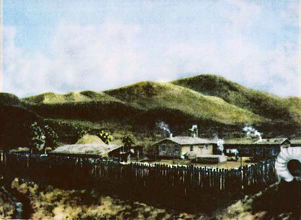 This is either a colorized version of a photo taken in the 1860s, or a copy of a painting made in the mid to late 1800s. As such, it is out of copyright and in the public domain. The original author is unknown. I scanned the image and cleaned it up.